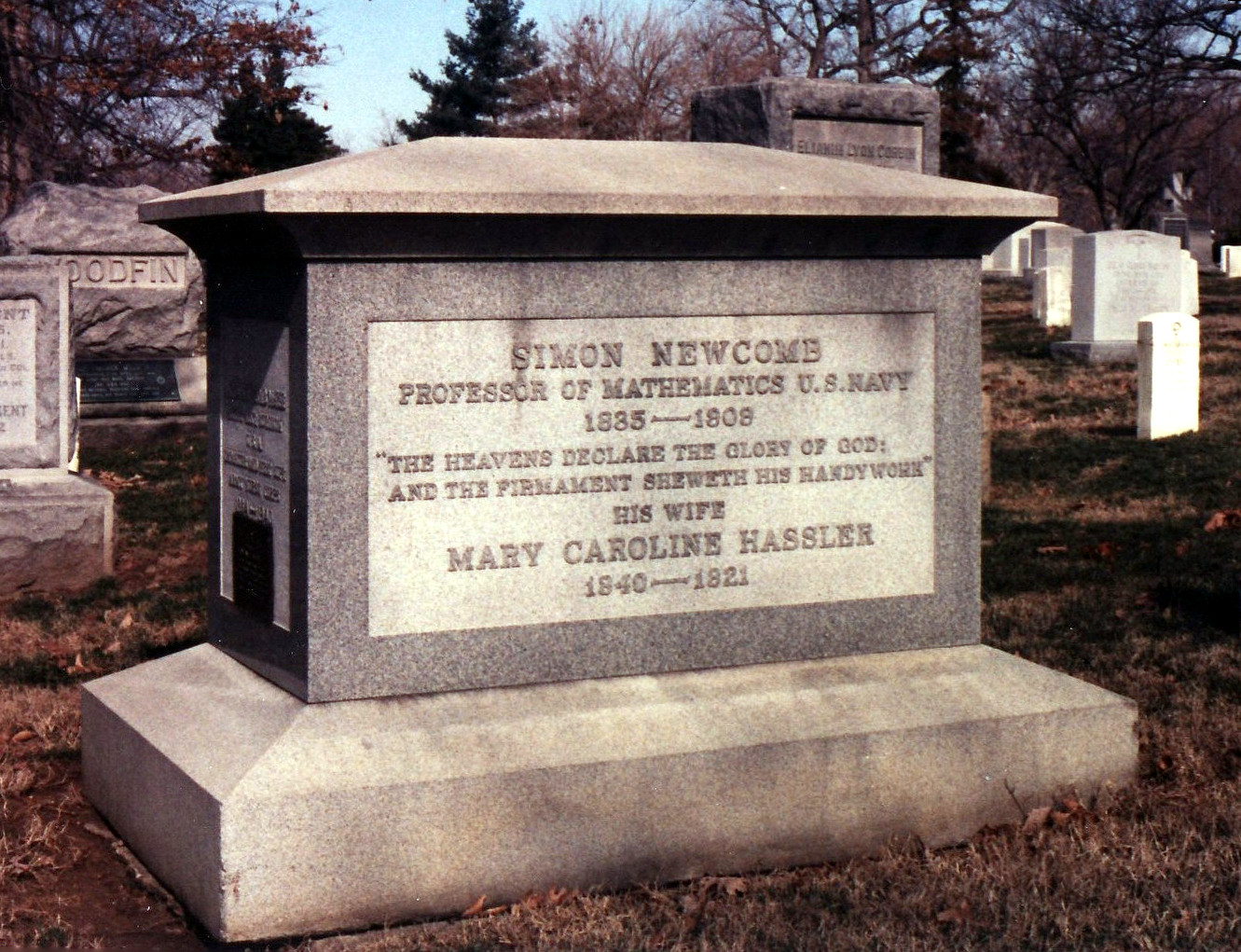 Grave of Simon Newcomb, the US astronomer